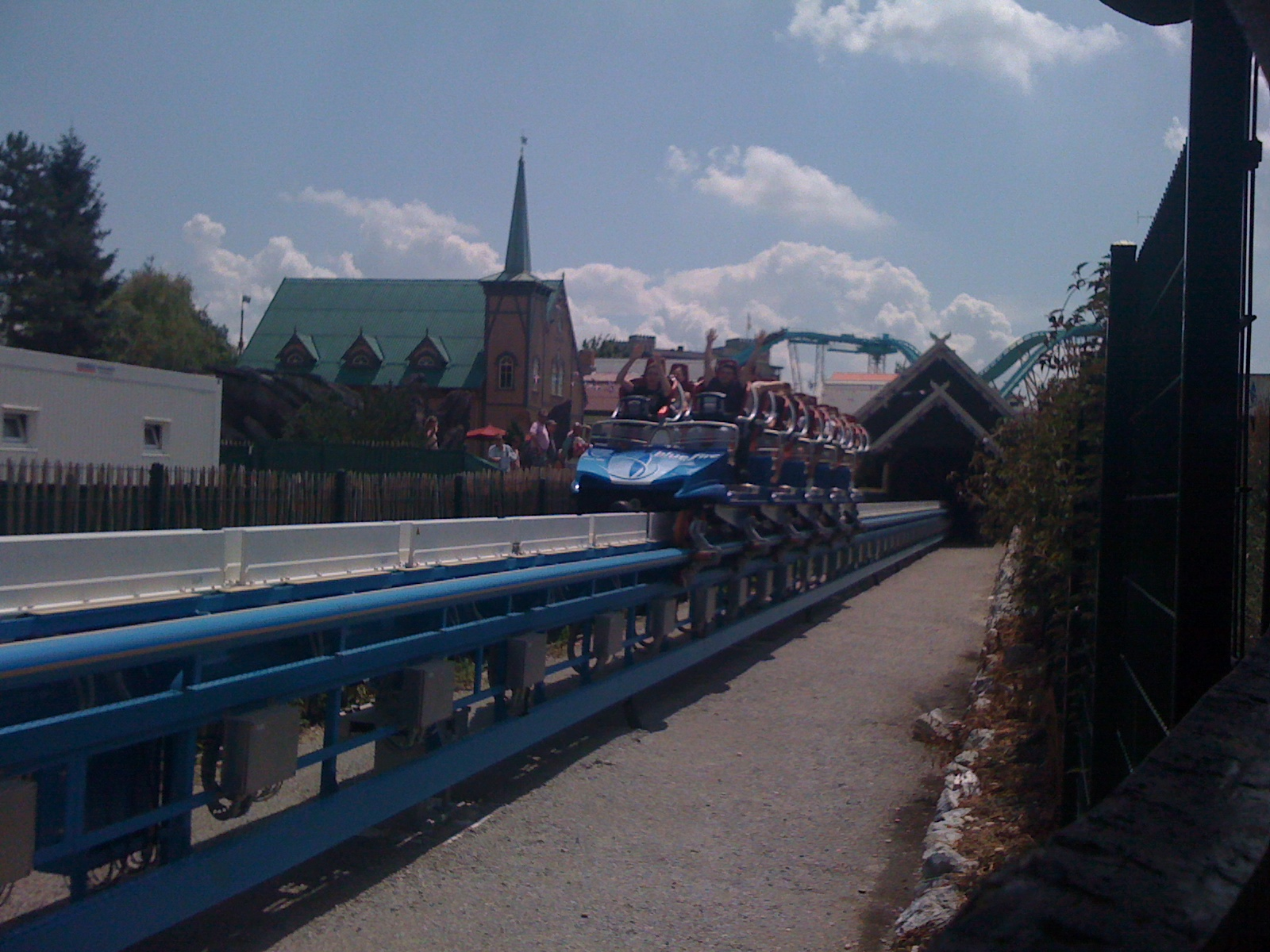 The Start of Blue Fire